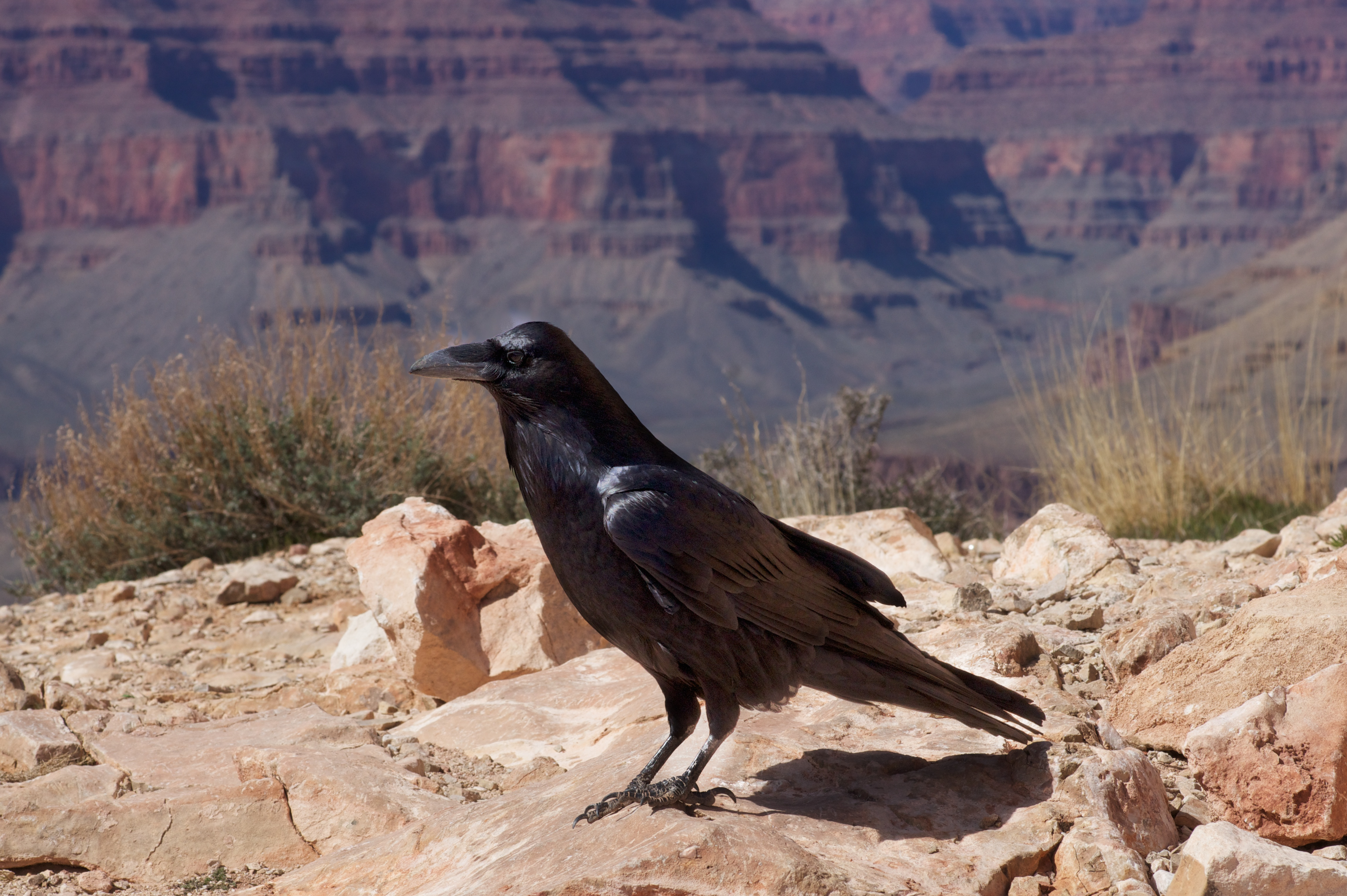 A raven in Grand Canyon National Park, Arizona, USA.